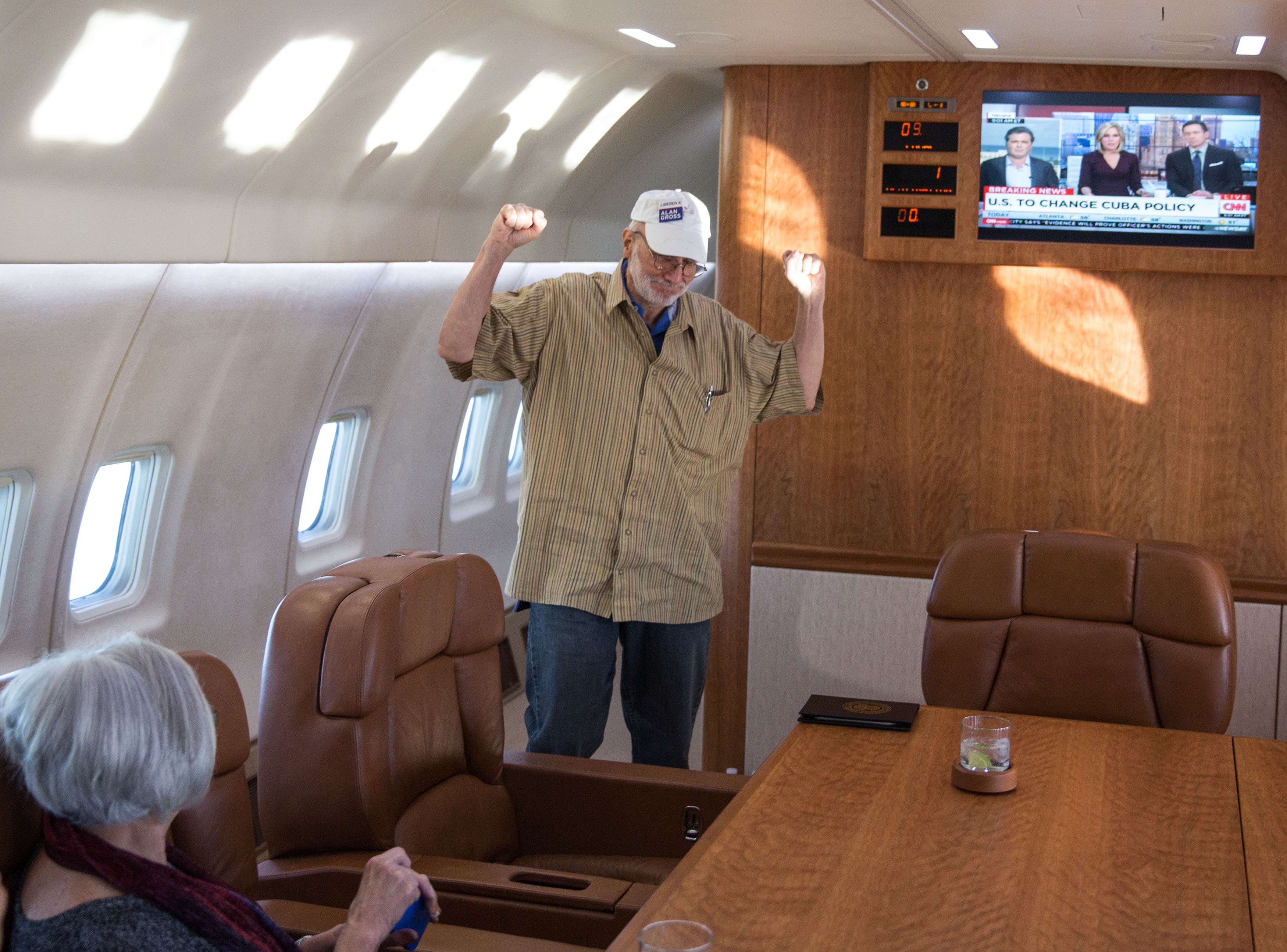 A photograph released by the White House shows American contractor Alan Gross aboard a U.S. government plane en route to Andrews Air Force Base on December 17, 2014, after his release by the Cuban government.